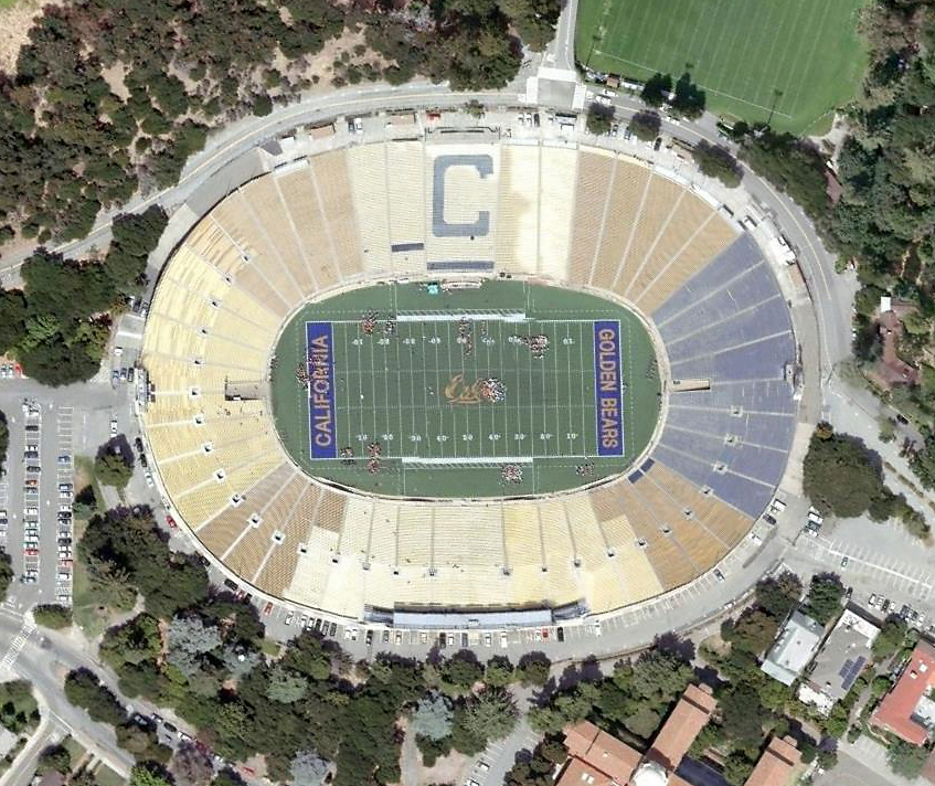 California Memorial Stadium, University of California in Berkeley